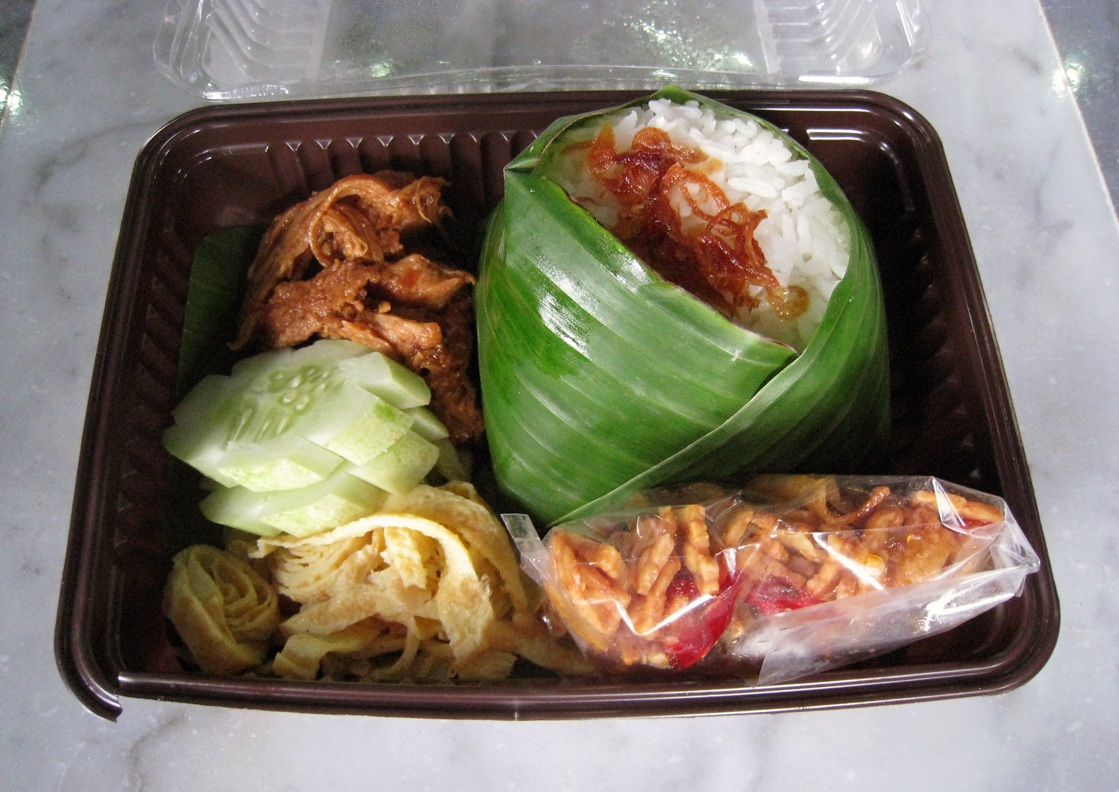 Nasi uduk (rice cooked in coconut milk) in plastic box, Jakarta. Wrapped in banana leaf, topped with bawang goreng (fried shallots). Served with shredded telur dadar (omelette), tempe orek (sweet and dry fried tempe), ayam suwir (shreded chicken), and cucumber.